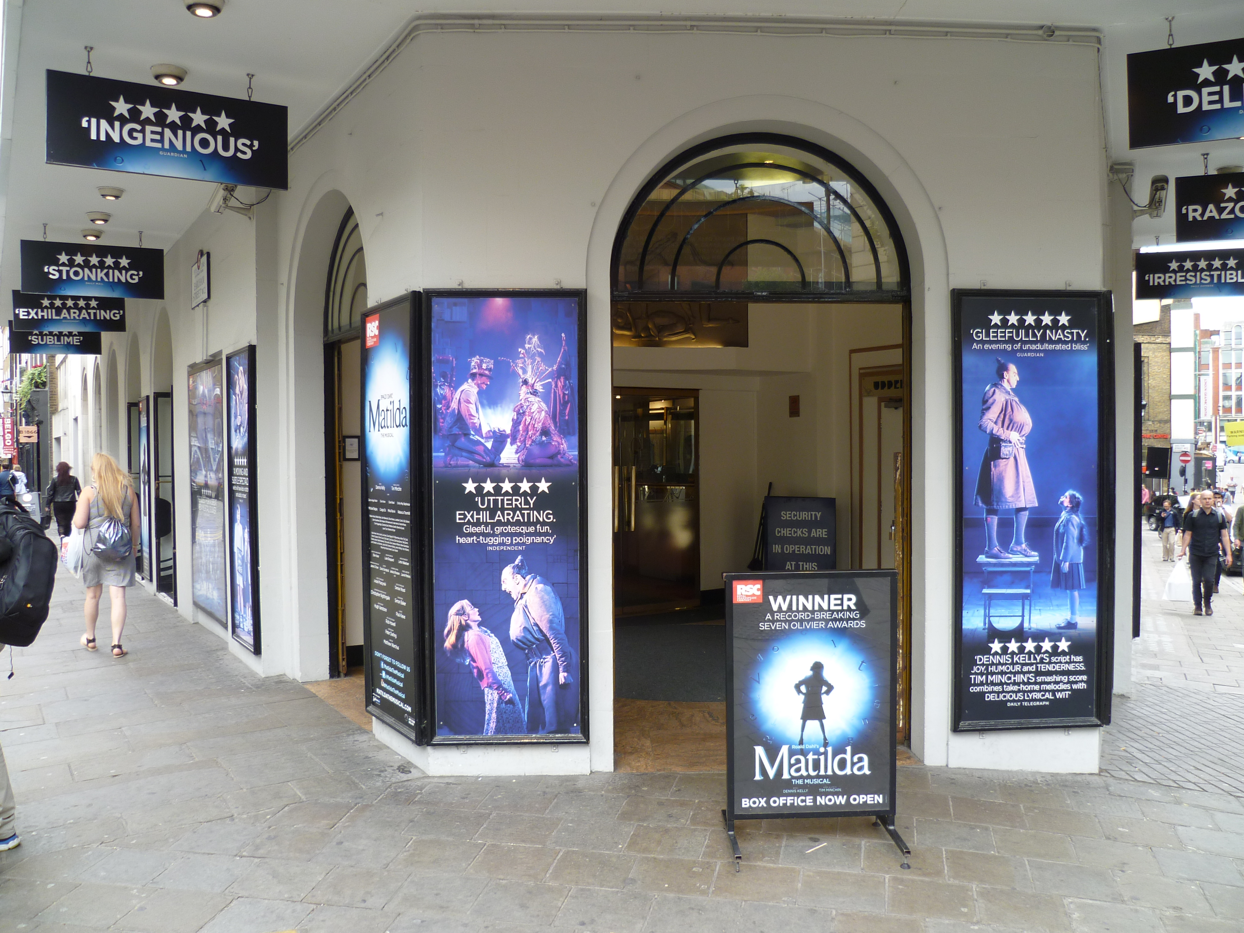 Cambridge Theatre, London, 28 July 2016